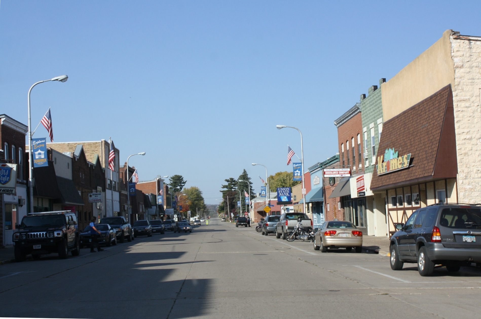 Looking north in downtown West Salem, Wisconsin.